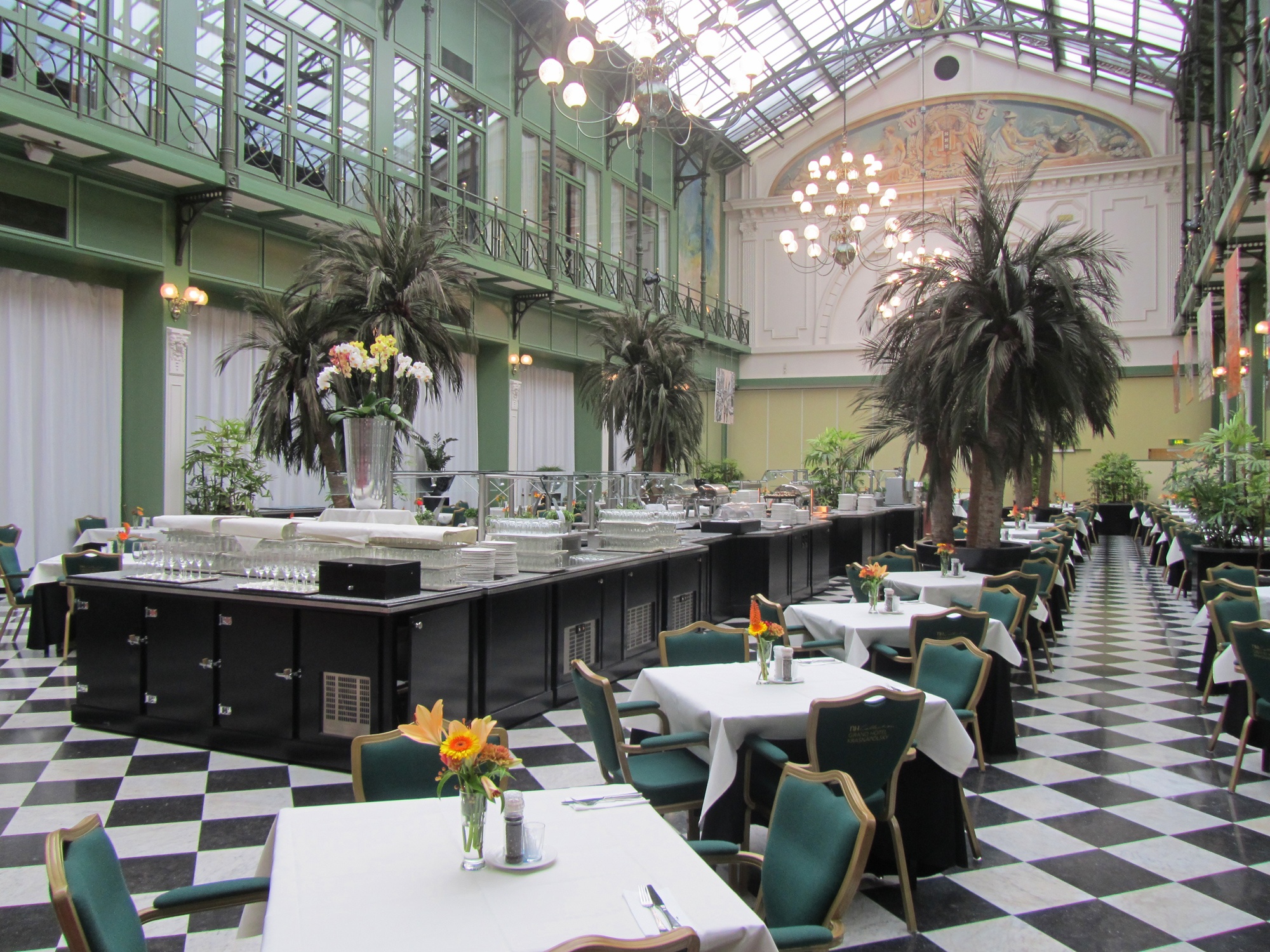 The Wintertuin at Hotel Krasnapolsky in Amsterdam, designed by G.B. Salm, c. 1880. The use of electrical lighting was very advanced in its day and is said to have inspired Gerard Philips to start his lightbulb company, the forerunner of electronics company Philips.